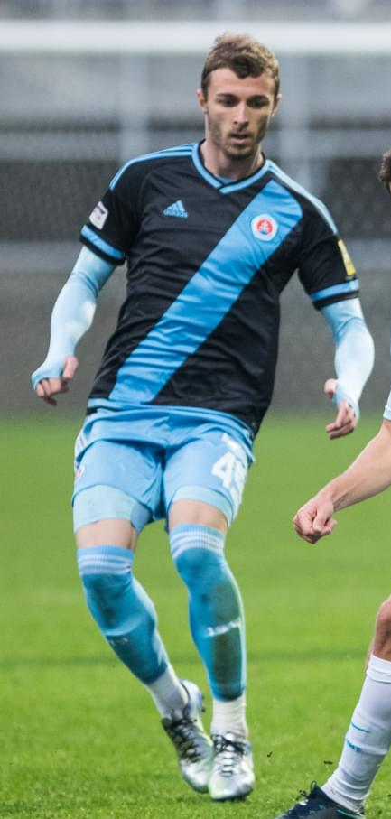 04.02.18. Турция, Анталья, стадион «Мардан». Вторые зимние «Газпром» — тренировочные сборы: товарищеский матч «Зенит» — «Слован».